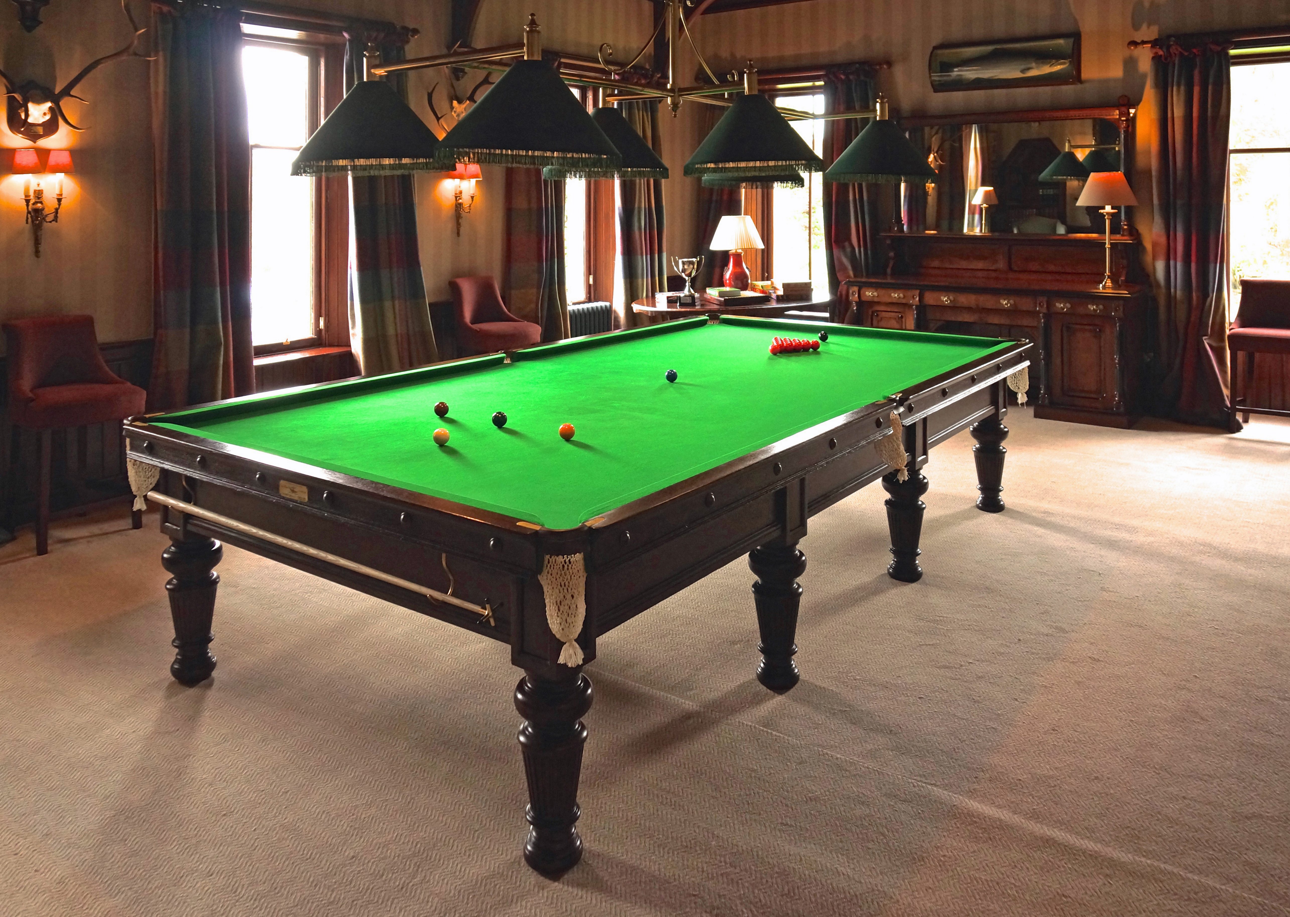 Cromlix House 3